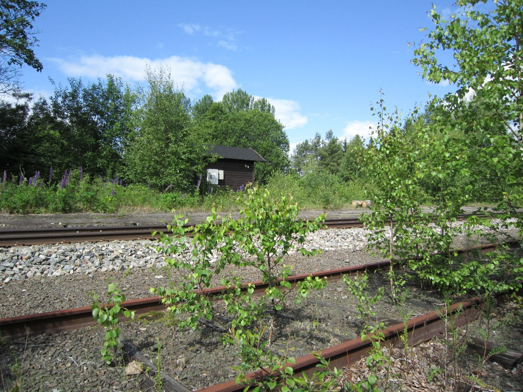 Arneberg station on the Solør line (Norway)